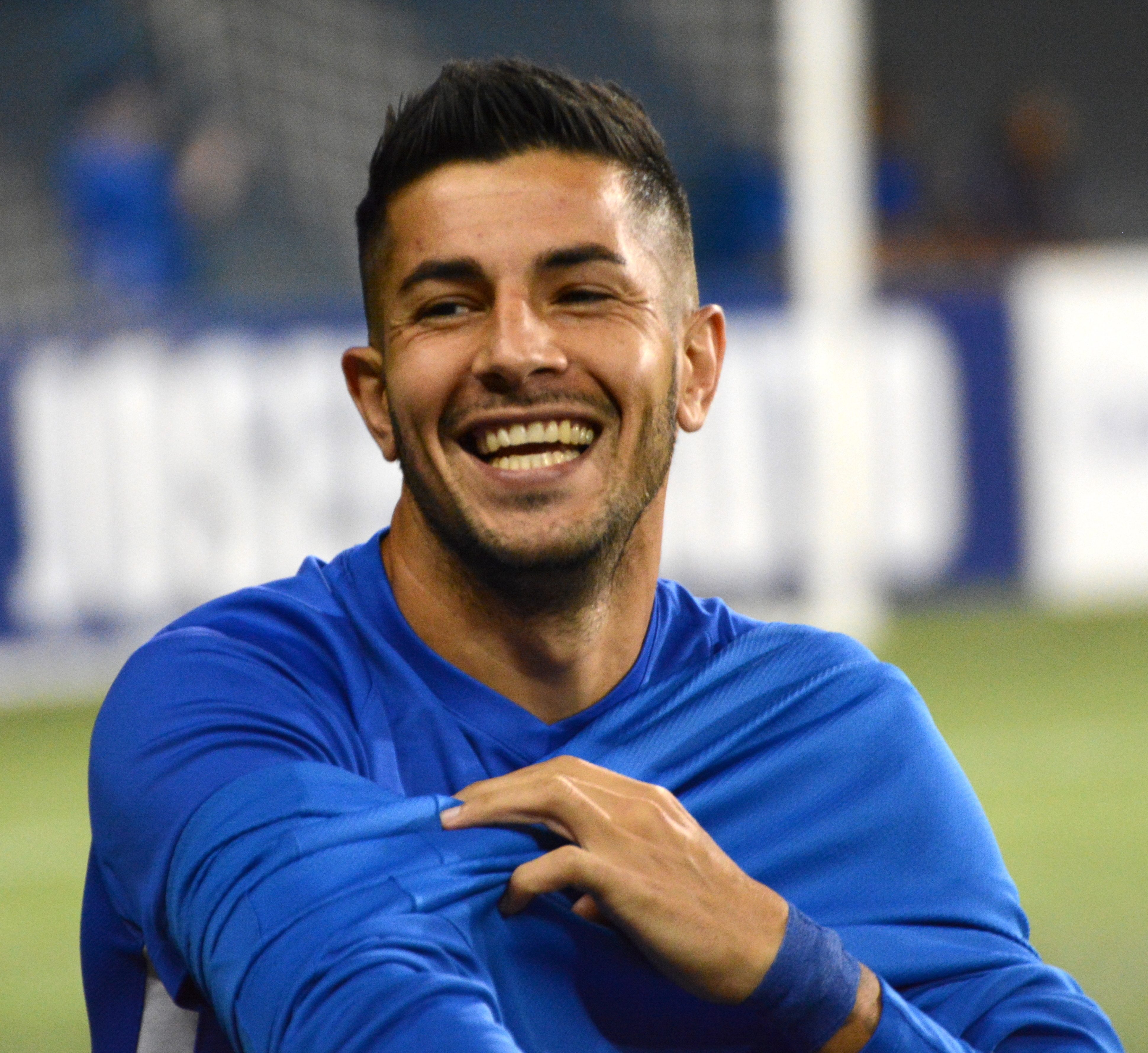 Taken during a USL regular season match between FC Cincinnati and Indy Eleven at Nippert Stadium in Cincinnati, USA on September 29, 2018.